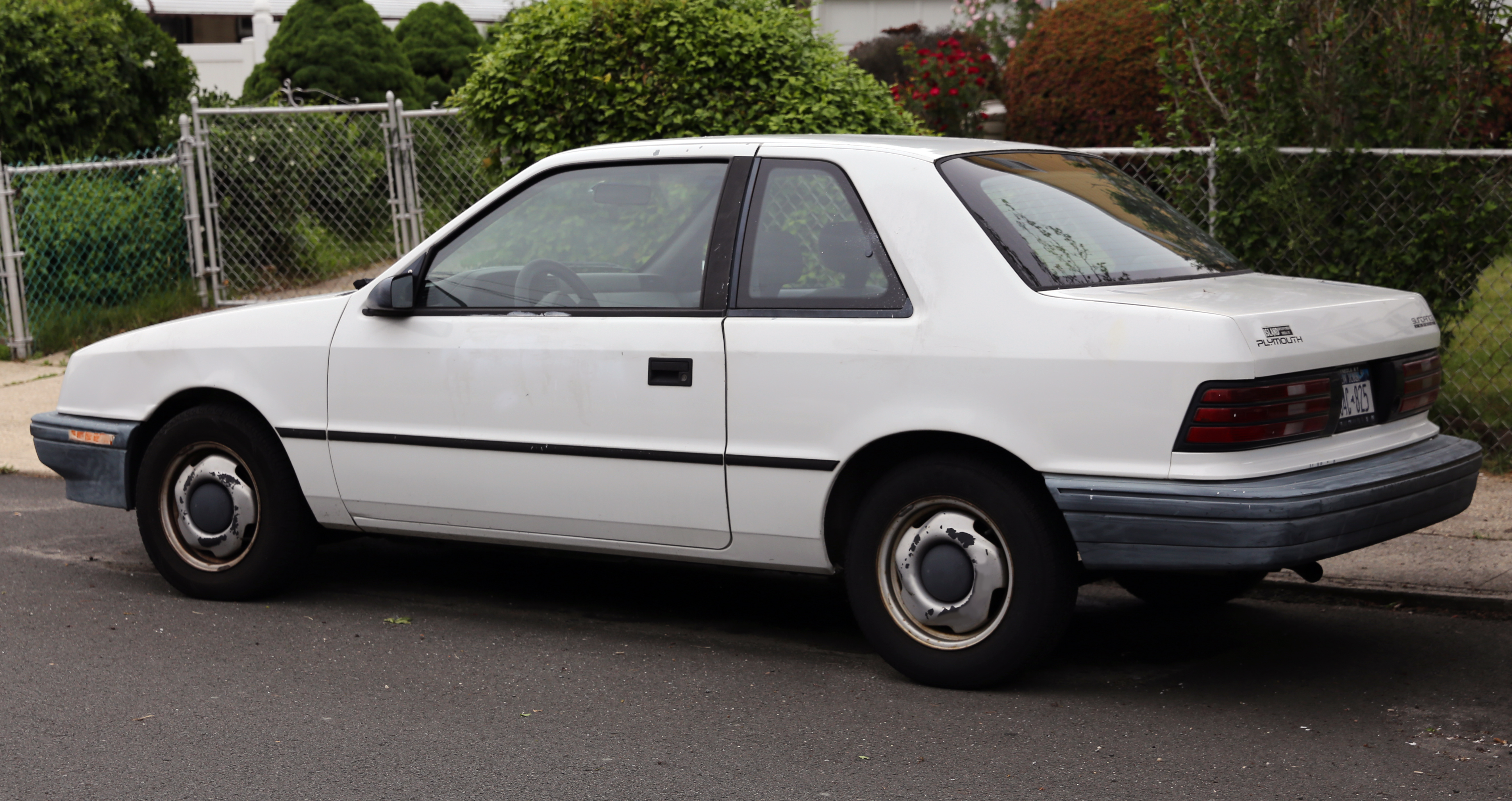 A 1992 Plymouth Sundance America three-door hatchback. The lowest equipped version, really bare-boned. 2.2-litre four and an automatic, built in Chrysler's Sterling Heights plant according to the NHTSA.